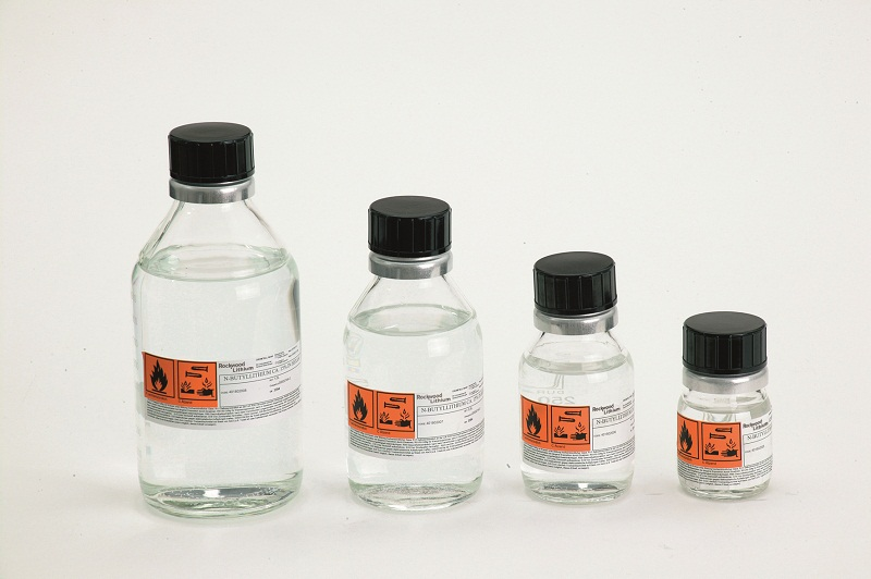 Glasbottles containing Butyllithium, Buli